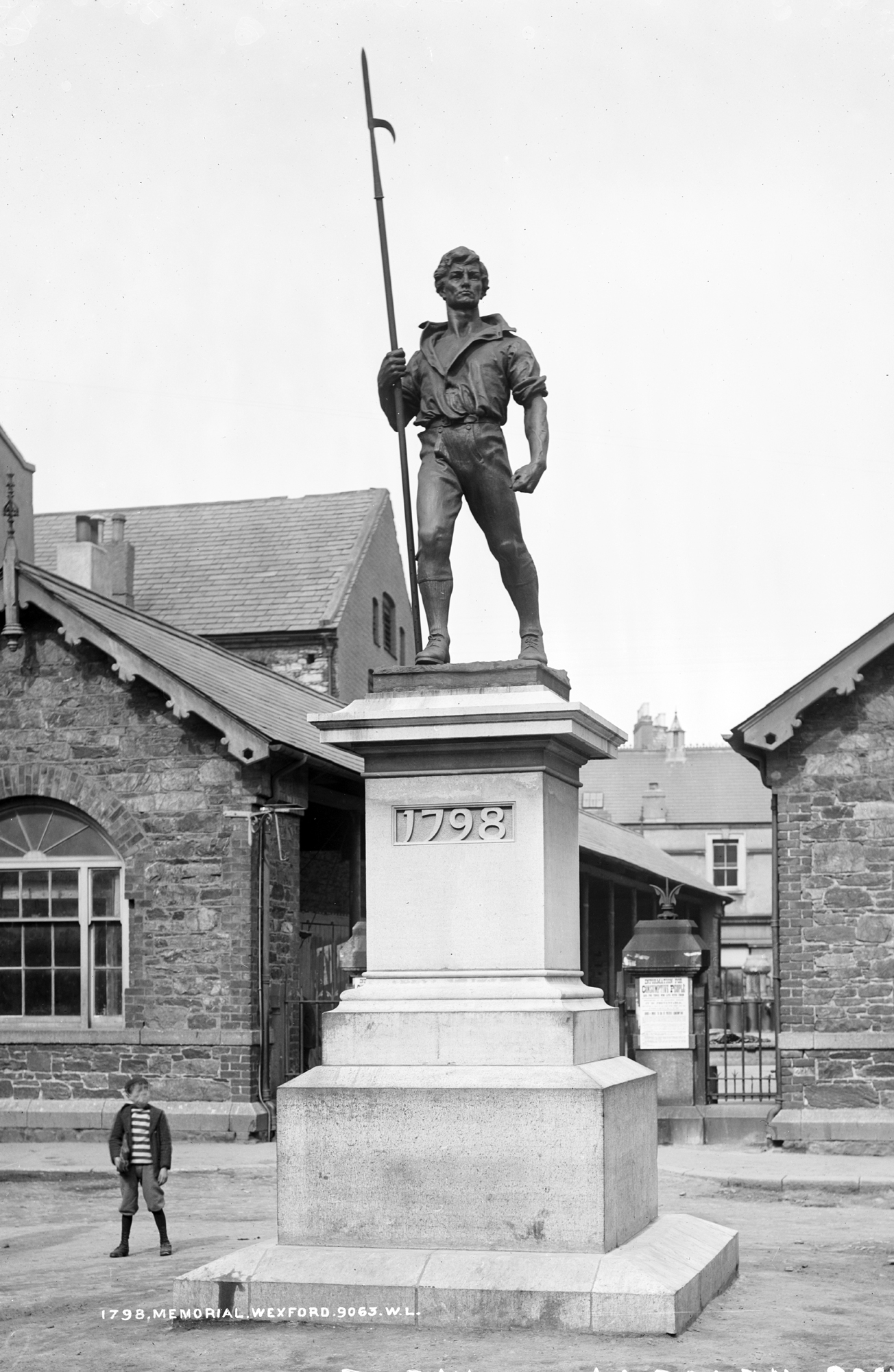 Love this one for the way the boy in his lovely stripy geansaí has mimicked the stance of this 1798 commemorative statue in Wexford town. The poster in the background may be useful for dating purposes. I can't read all of the poster, but the top bit says "Information for Consumptive People and for those who live with them". I think this may be to do with the nationwide campaign against TB in 1907/1908... Date: Circa 1908?? (definitely after 6 August 1905 when this bronze Pikeman was unveiled) NLI Ref.: L_CAB_09063